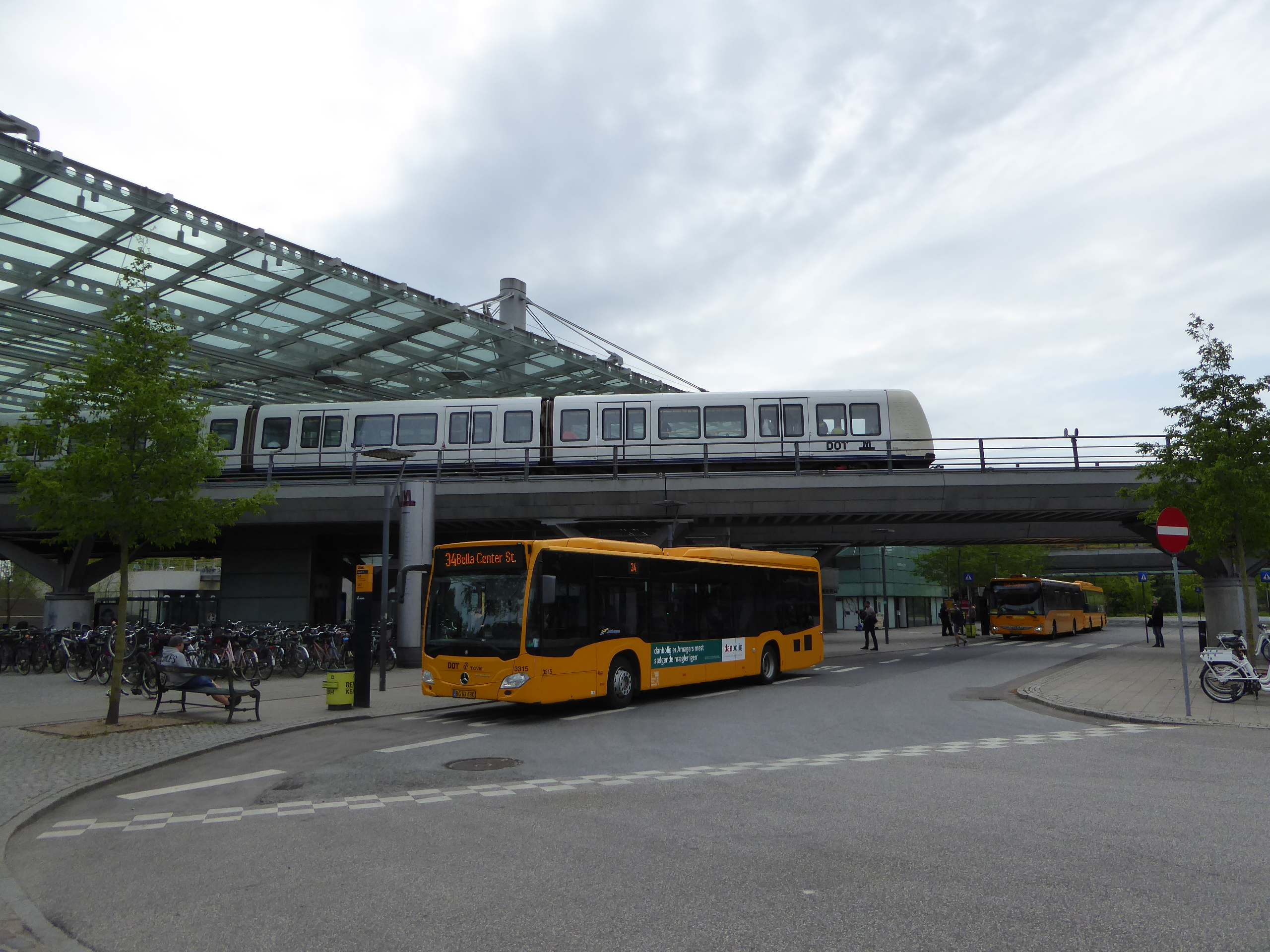 Movia bus line 34 at Flintholm Station in Vanløse in Copenhagen.